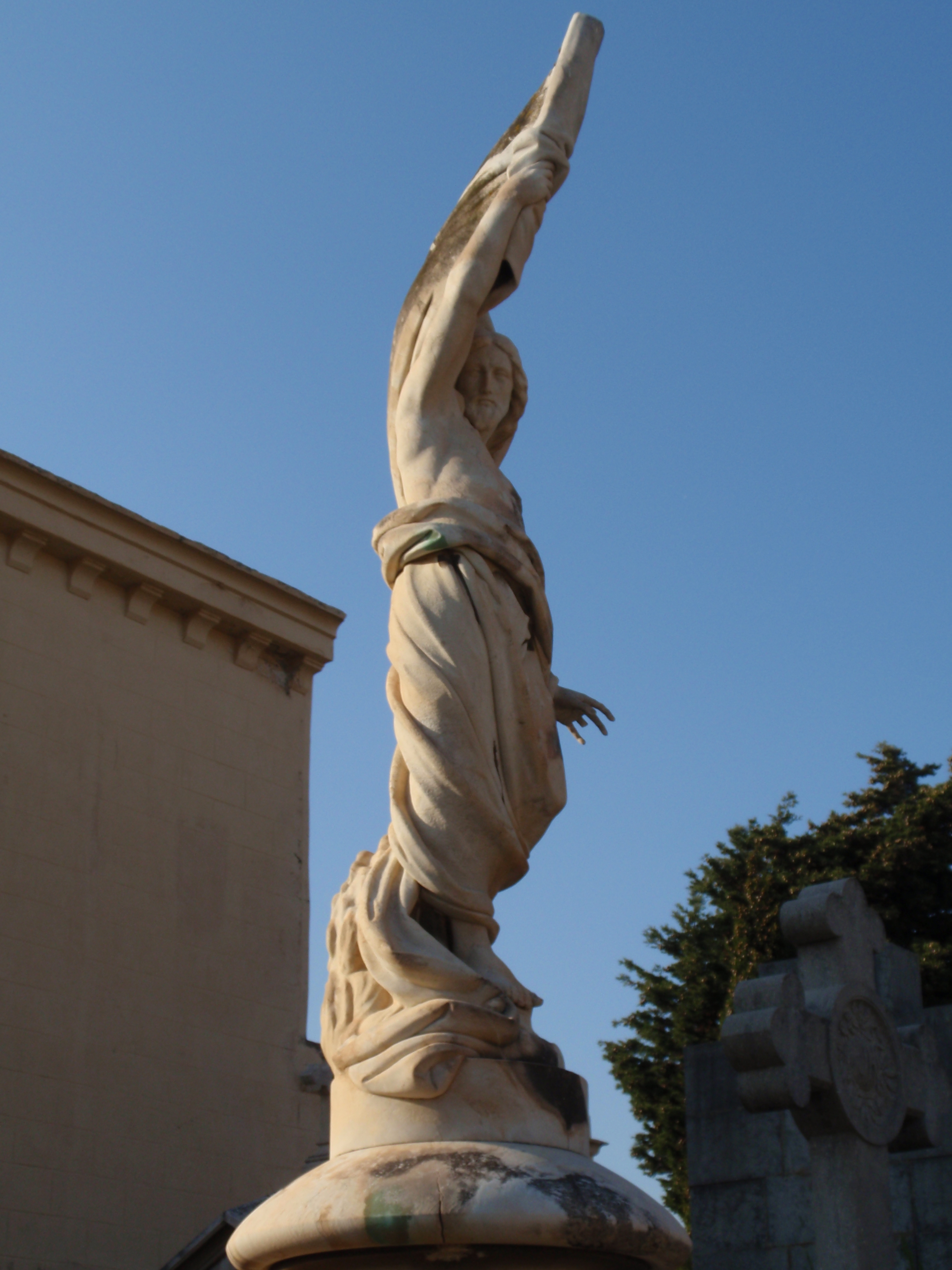 Arenys de Mar cemetery (Catalonia, Spain)